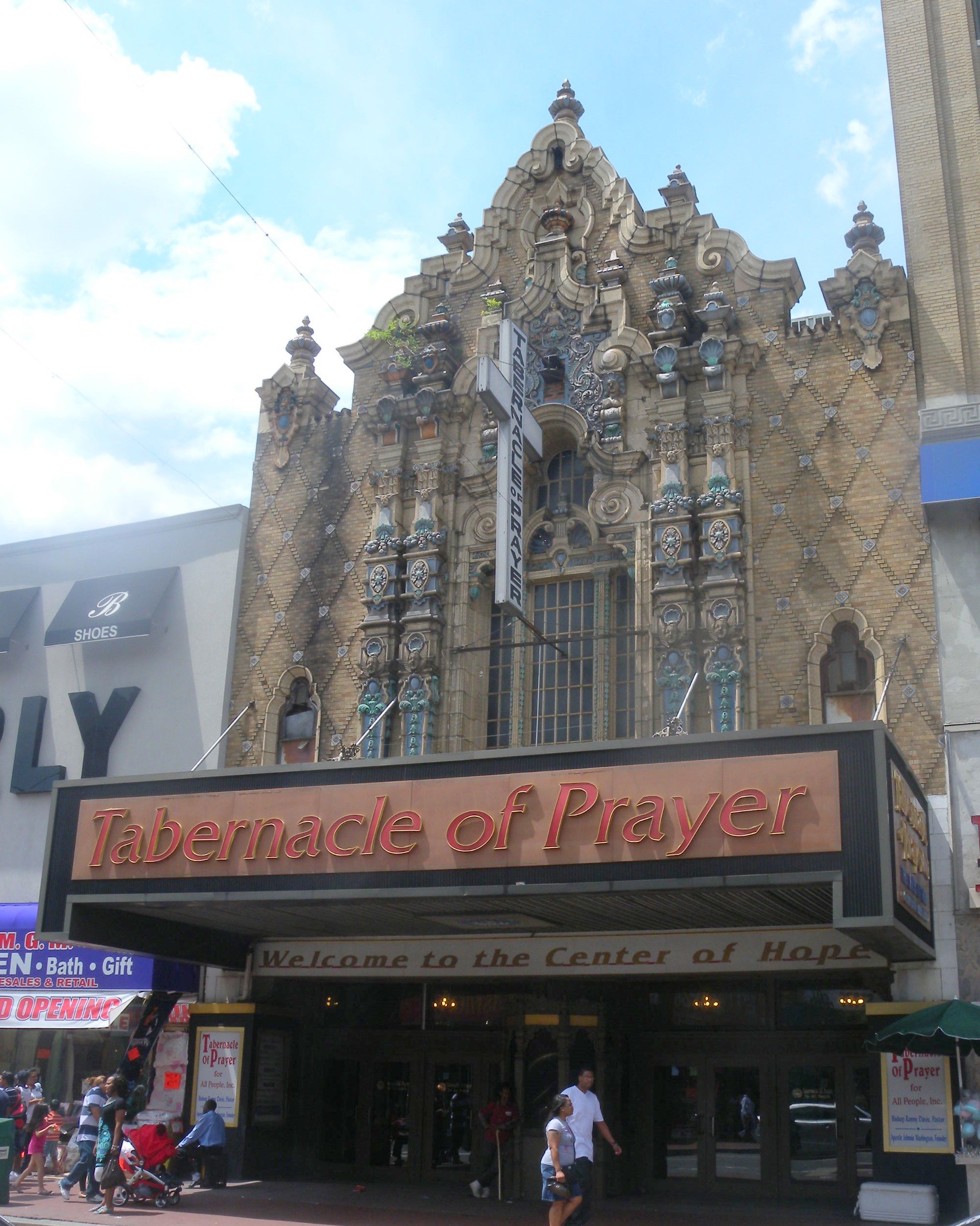 Looking northwest across Jamaica Avenue at Loews Valencia, now a church, on a partly cloudy midday.